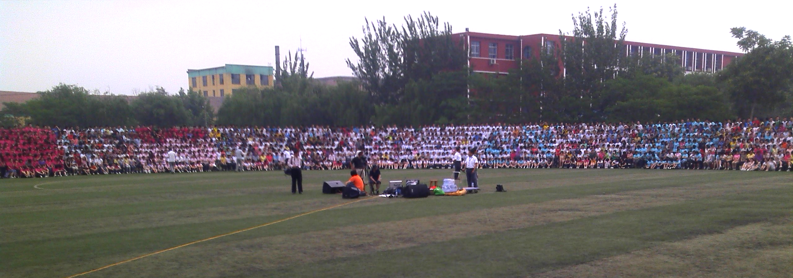 Graduation photo of Hengshui High School